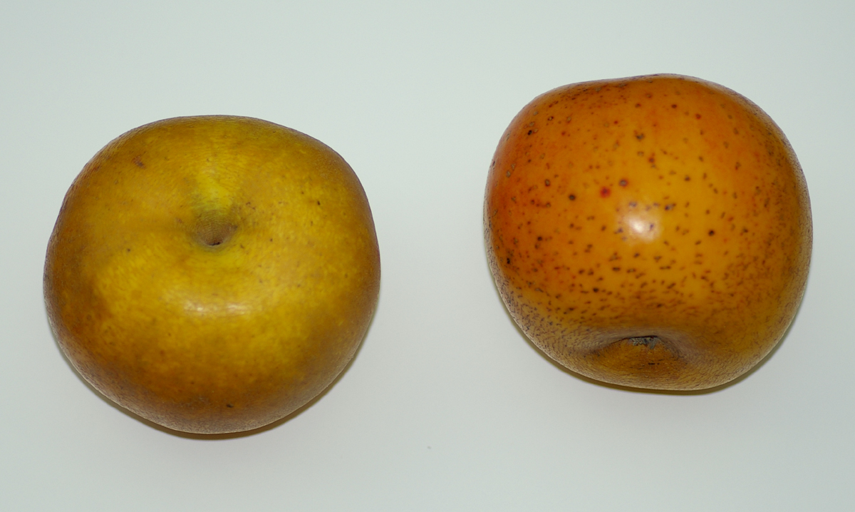 Apple "Clochard"